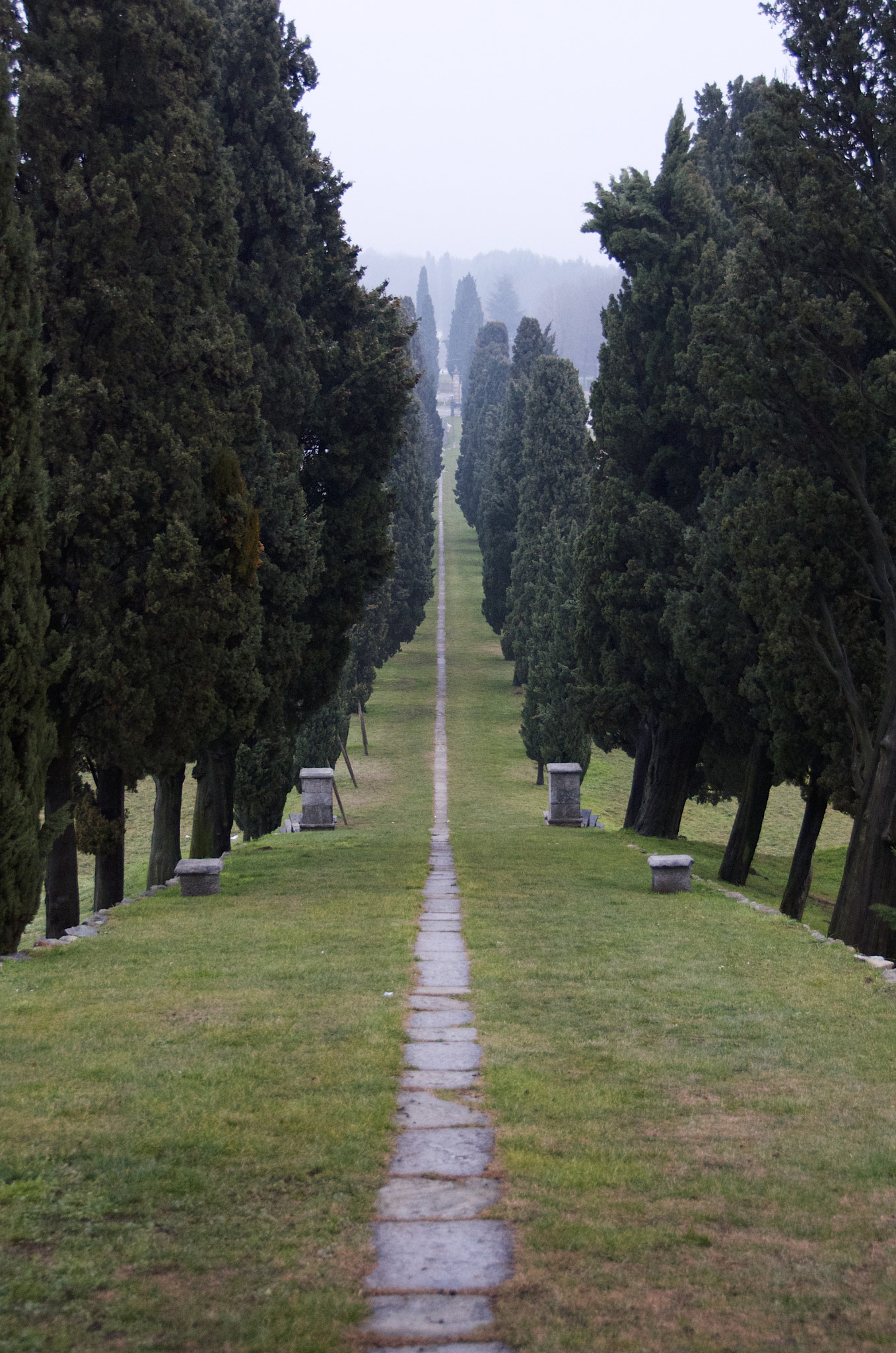 500px provided description: Viale Dei Cipressi [#landscape ,#tree ,#way ,#view ,#panorama ,#rural]